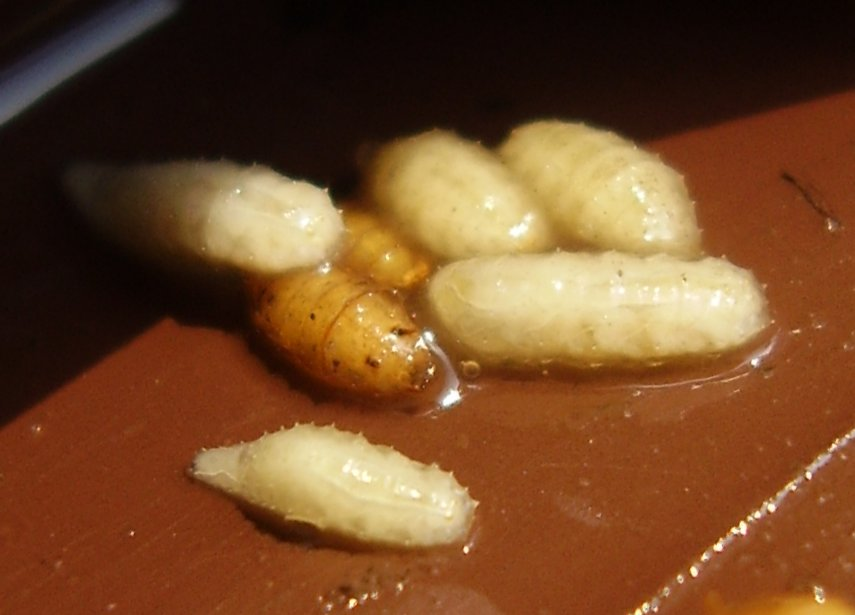 Larva (foreground) and pupae (background) of Fruit Fly